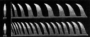 Illustration of two manometric traces, from ut3 and ut4 flames; the bottom trace has twice the frequency of the top. From Koenig's Acoustic Catalogue, 1865.